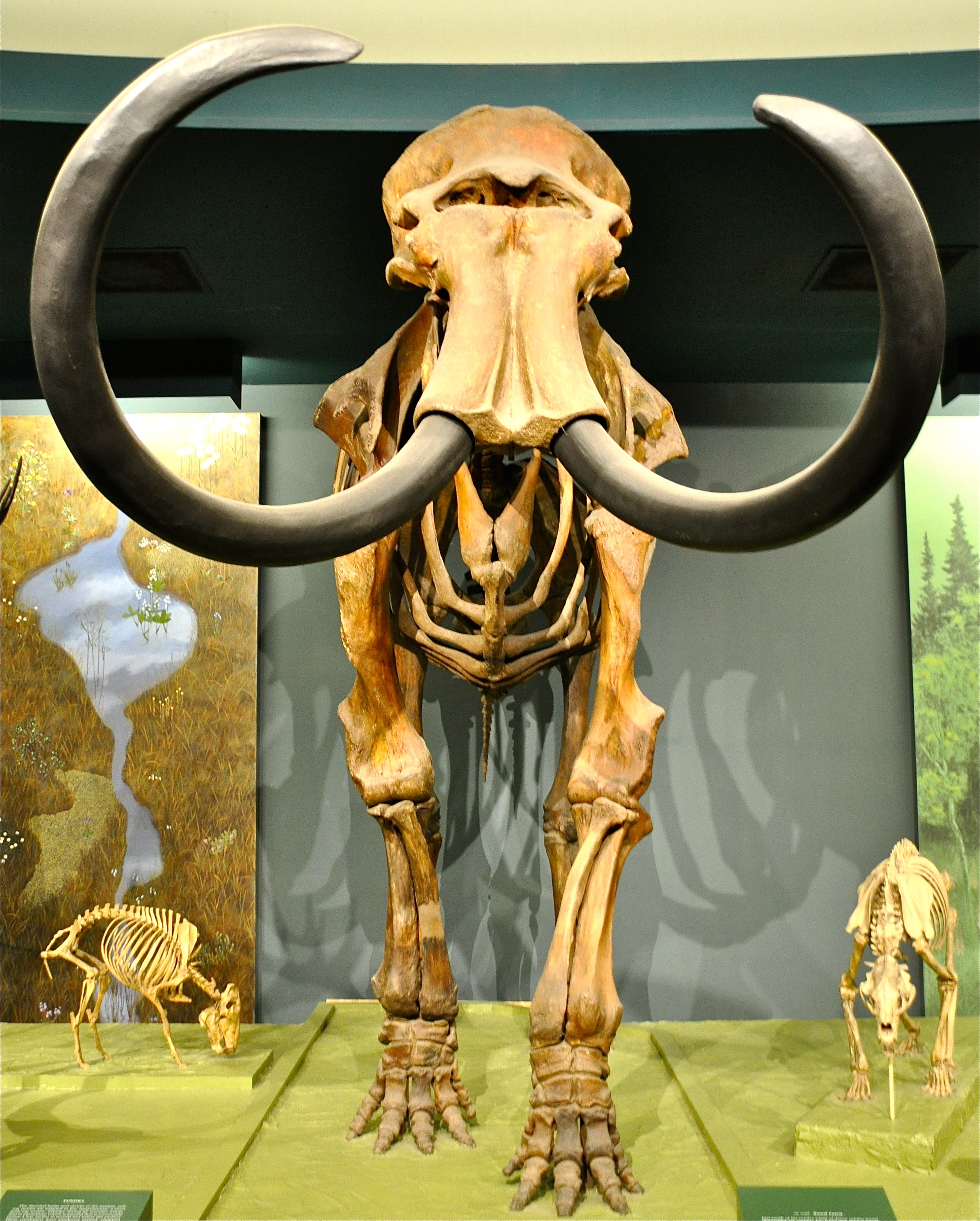 Mammoth skeleton at the Smithsonian Museum of Natural History, which contains bones of both woolly and Columbian mammoths, and is therefore chimaeric.